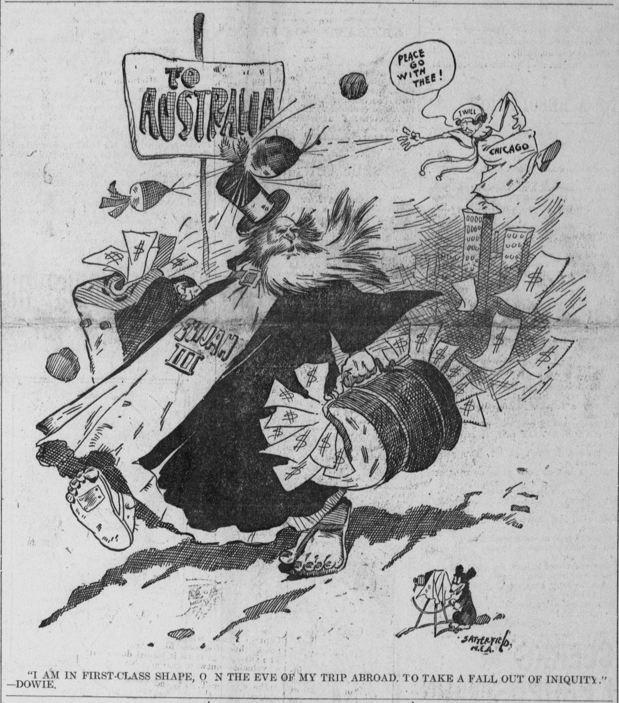 John Alexander Dowie -- his robes stuffed with money -- leaves Chicago for Australia.